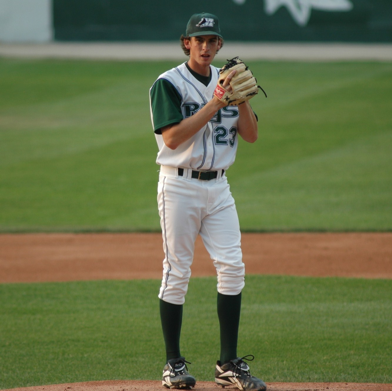 James Houser in 2005.